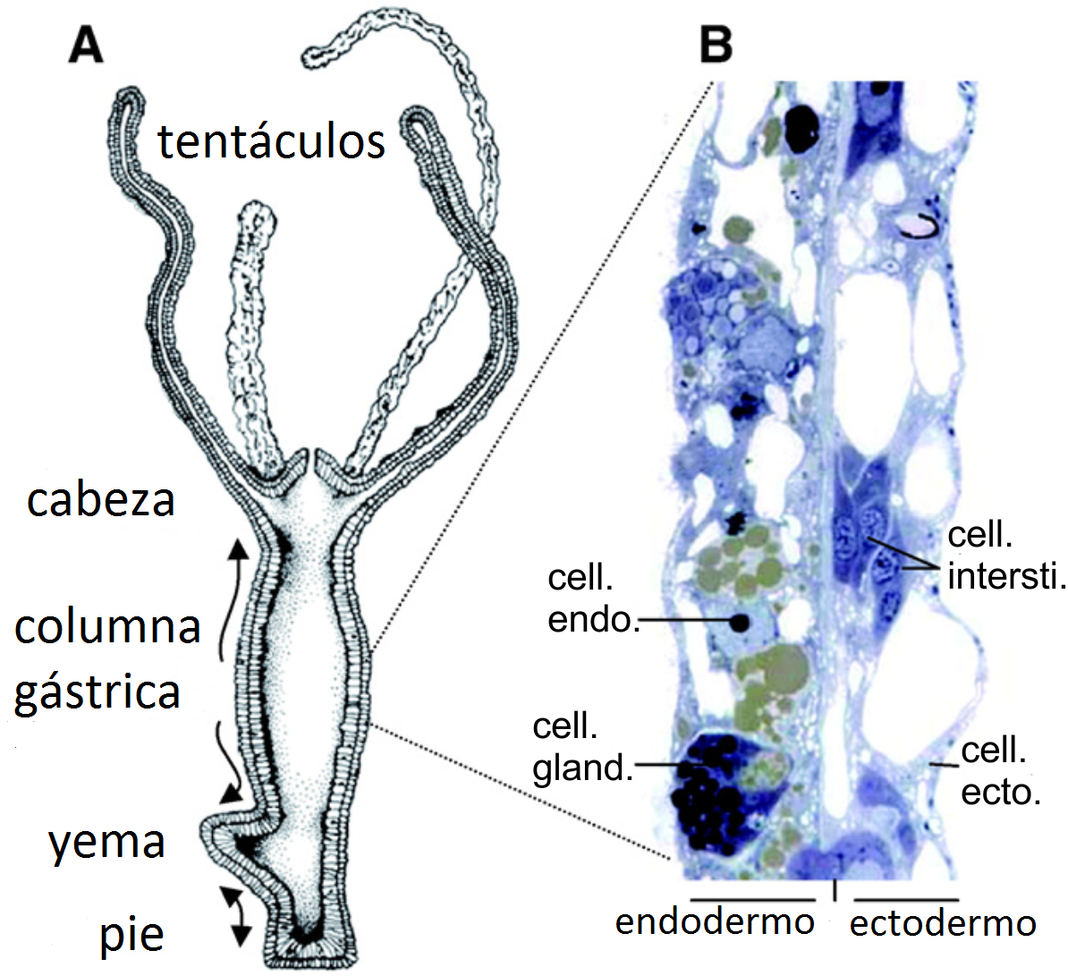 The freshwater polyp Hydra (A) schematic longitudinal cross section indicating the simple epithelial organization. Arrows indicate the direction of tissue displacement. (B) Photograph of a section of the epithelial lining of the body column, showing the diplobalstic organization. Cell. cellule ; endo., endoderme ; exto. extoderme ; glad. glandulaire ; intersti. interstitiel